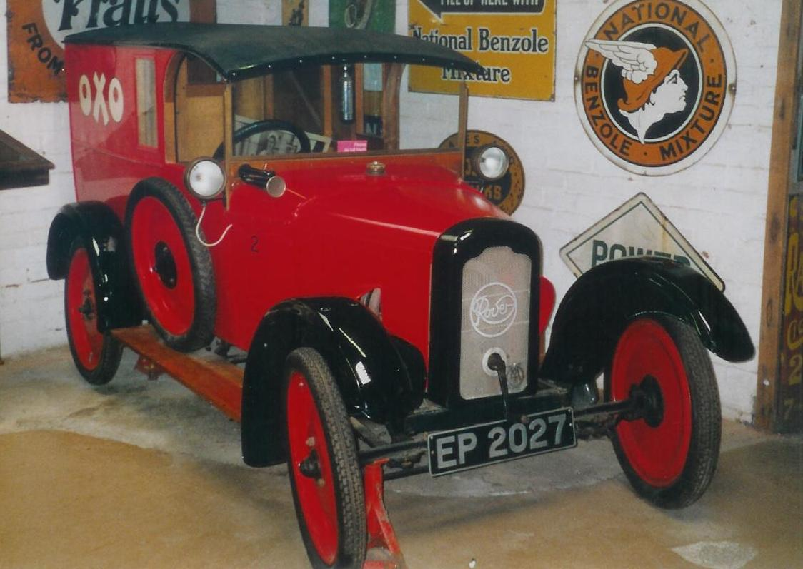 1922 Rover 8 Van (DVLA) first registered 17 October 1922, 1050 cc